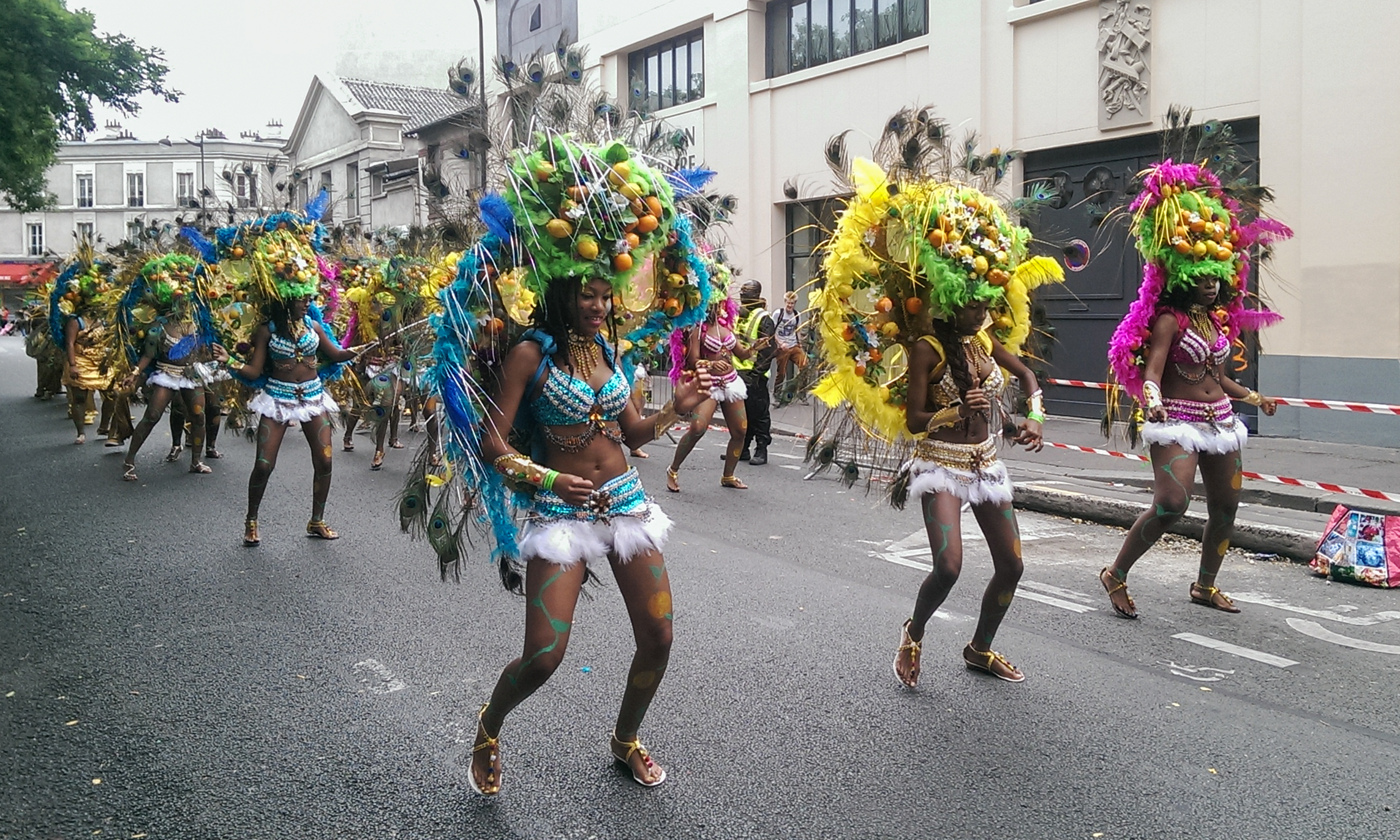 Tropical Carnival of Paris 2014 - Golden Stars 114 band (Guadeloupe)